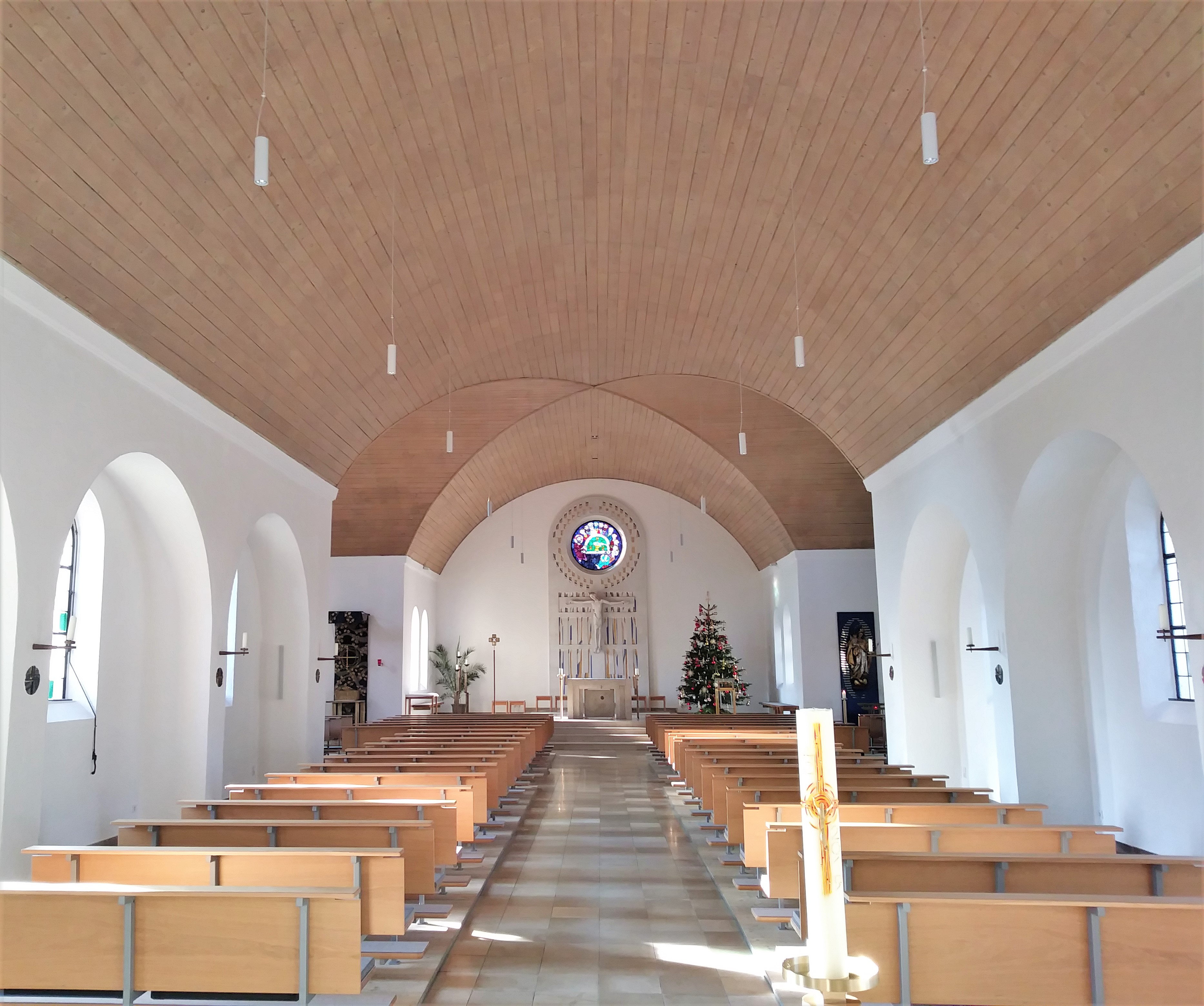 Katholische Kirche St. Alto in Unterhaching